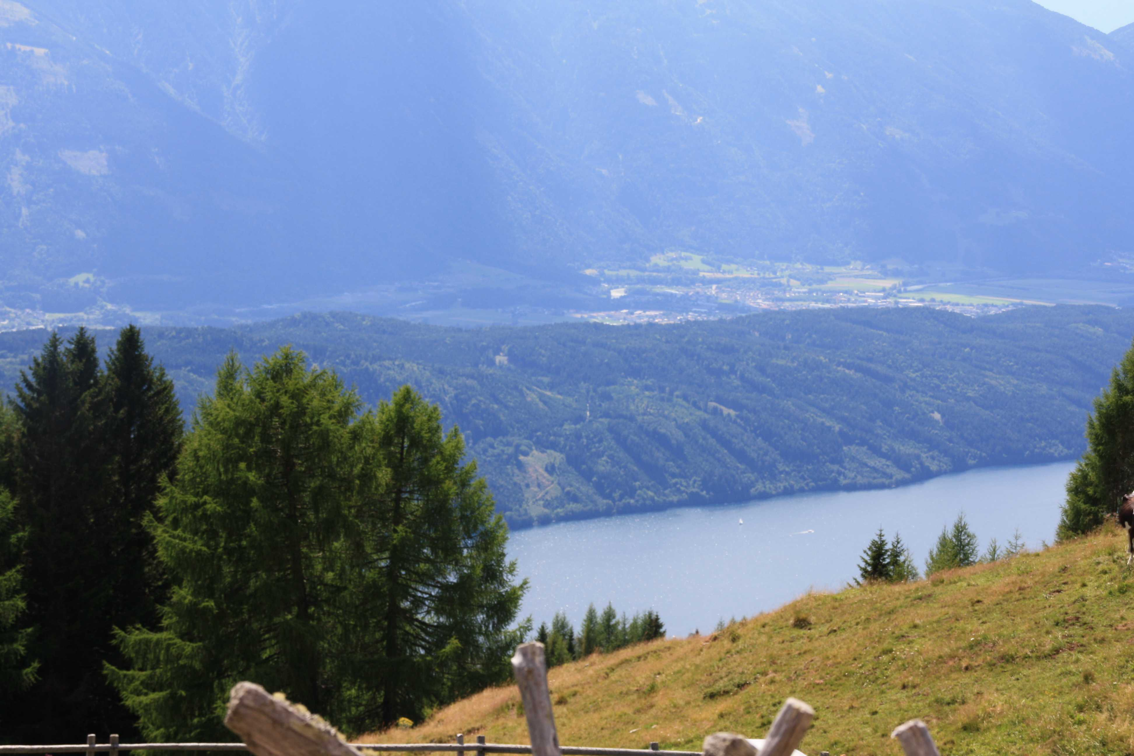 View from the hut towards Lammersdorfer Millstatt and the Drau Valley.